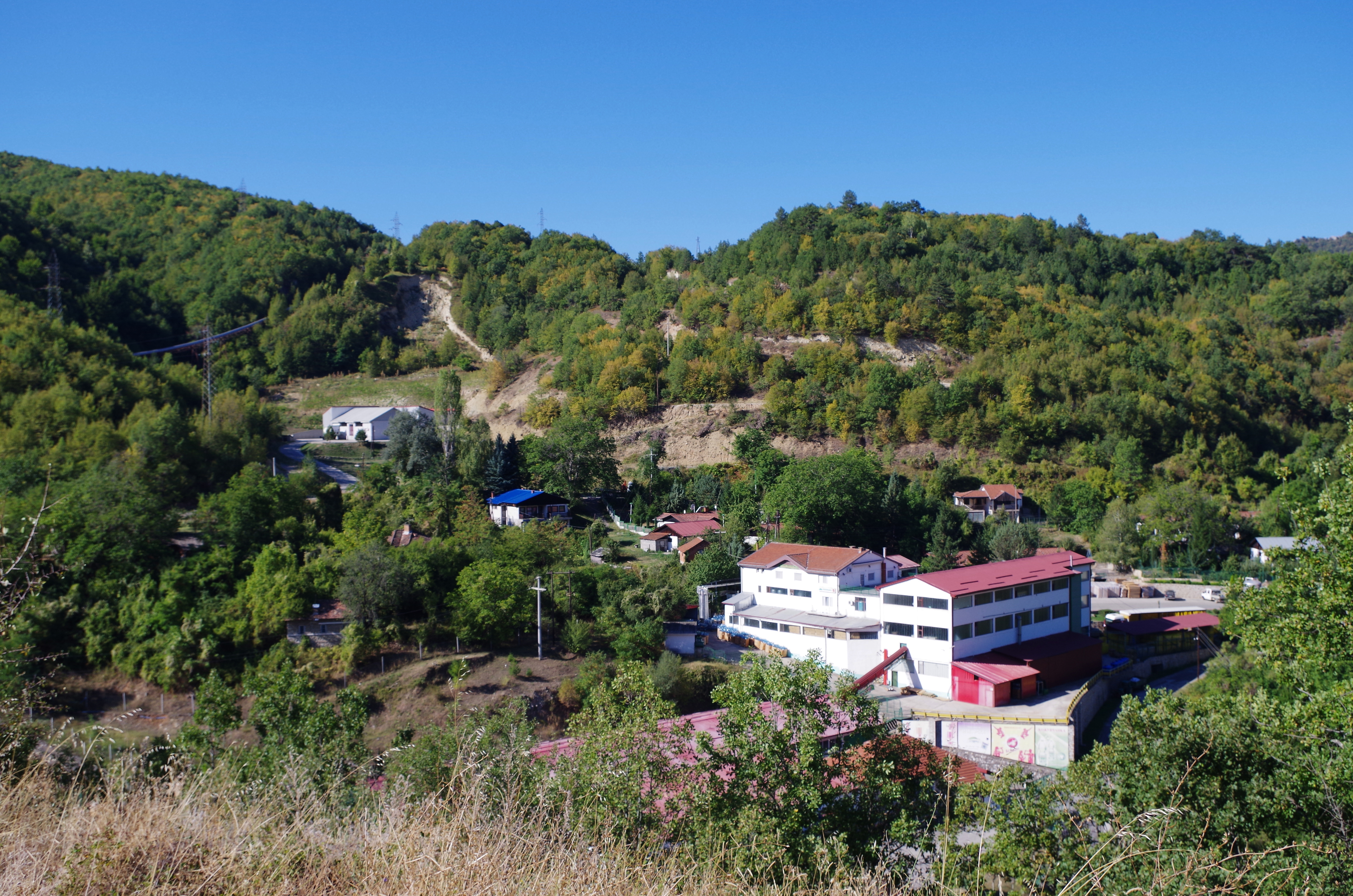 Kožuvčanka factory in the village of Mrežičko